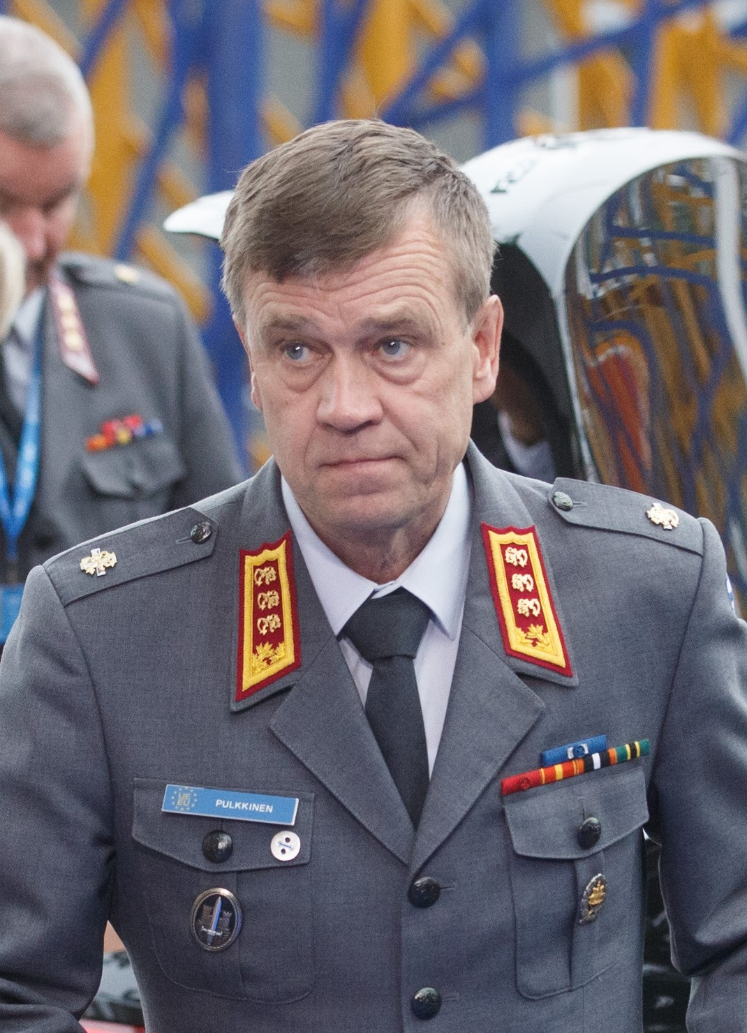 Esa Pulkkinen, Director General, EU Military Staff, EEAS / EUMS Photo: Raul Mee (EU2017EE)